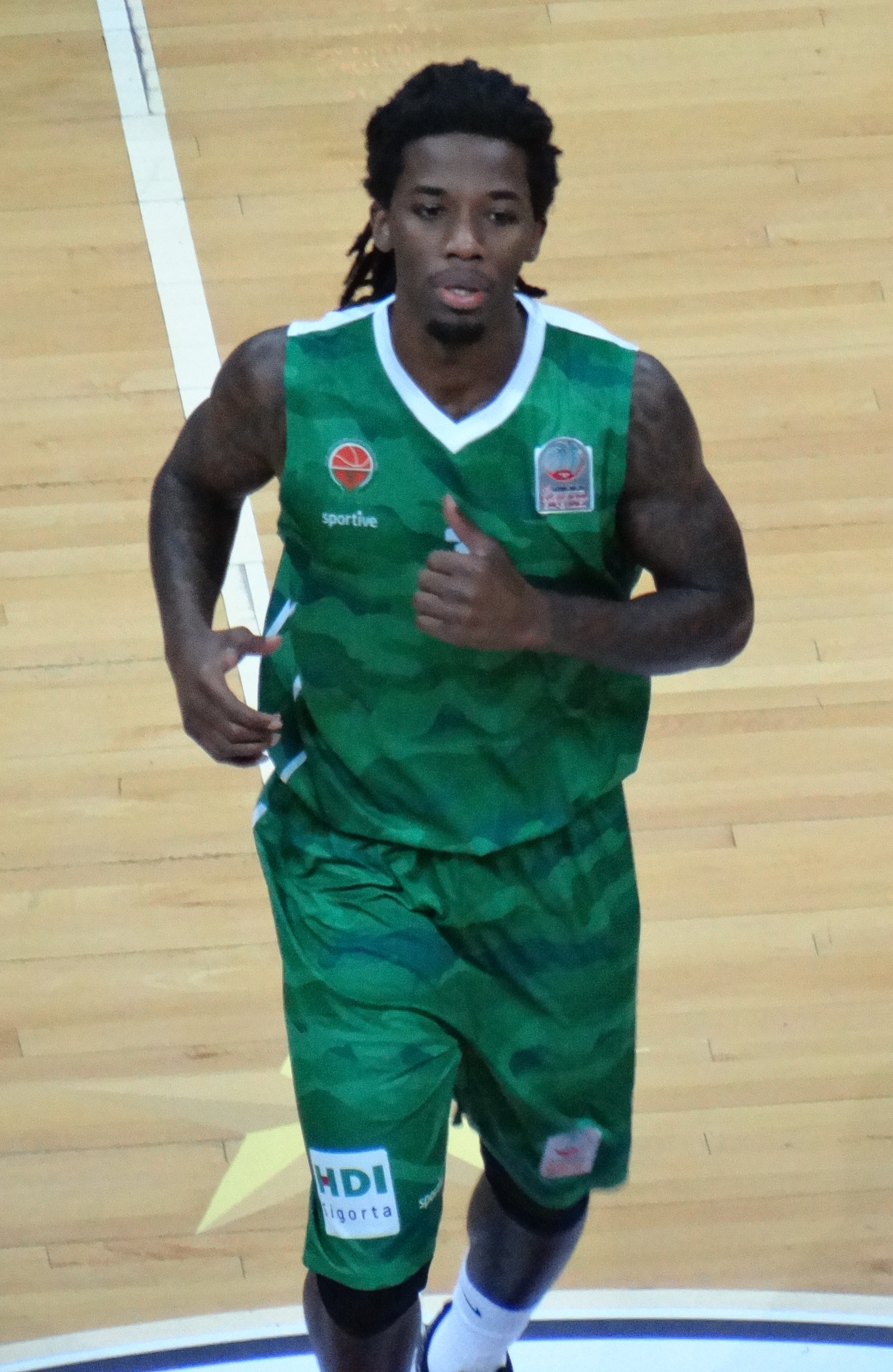 Fenerbahçe Men's Basketball vs Yeşilgiresun Belediye TSL 20171210